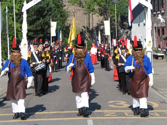 Procession at Eijsden; in front three "axe-men" of the folkloristic Oost citizen soldiery, who's task was in history to remove wooden obstacles, that were placed on the road by opponents of catholic processions.